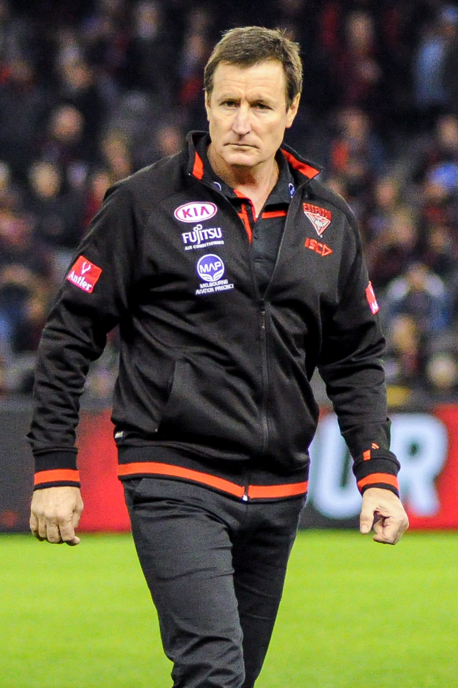 John Worsfold during the AFL round twelve match between Essendon and Port Adelaide on 10 June 2017 at Etihad Stadium in Melbourne, Victoria.